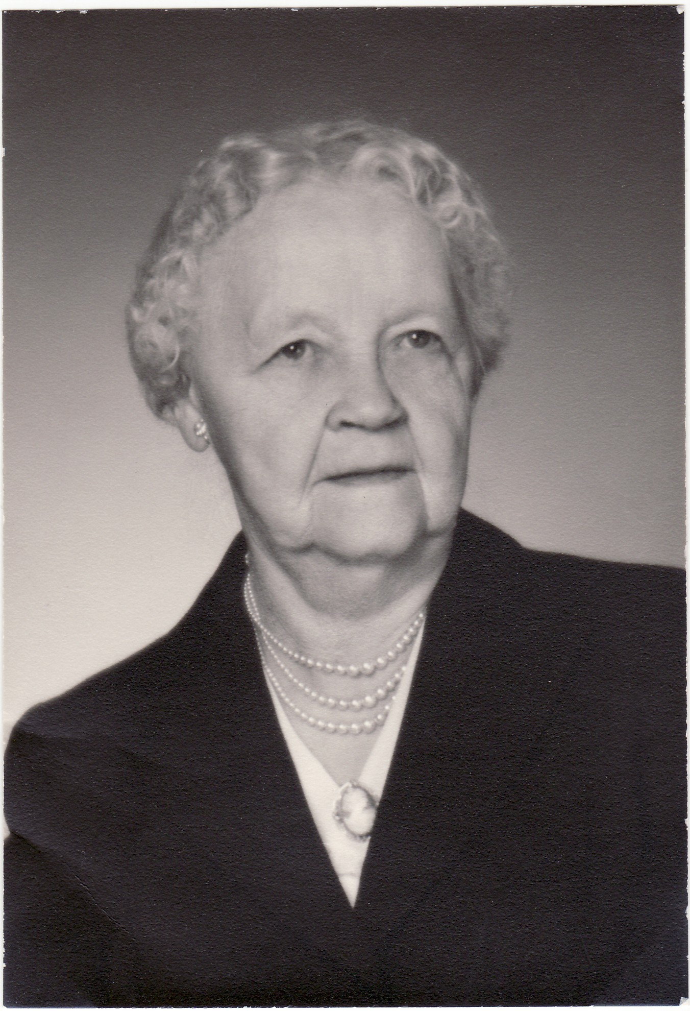 Arizona Impressionist painter Effie Anderson Smith (about 1950).